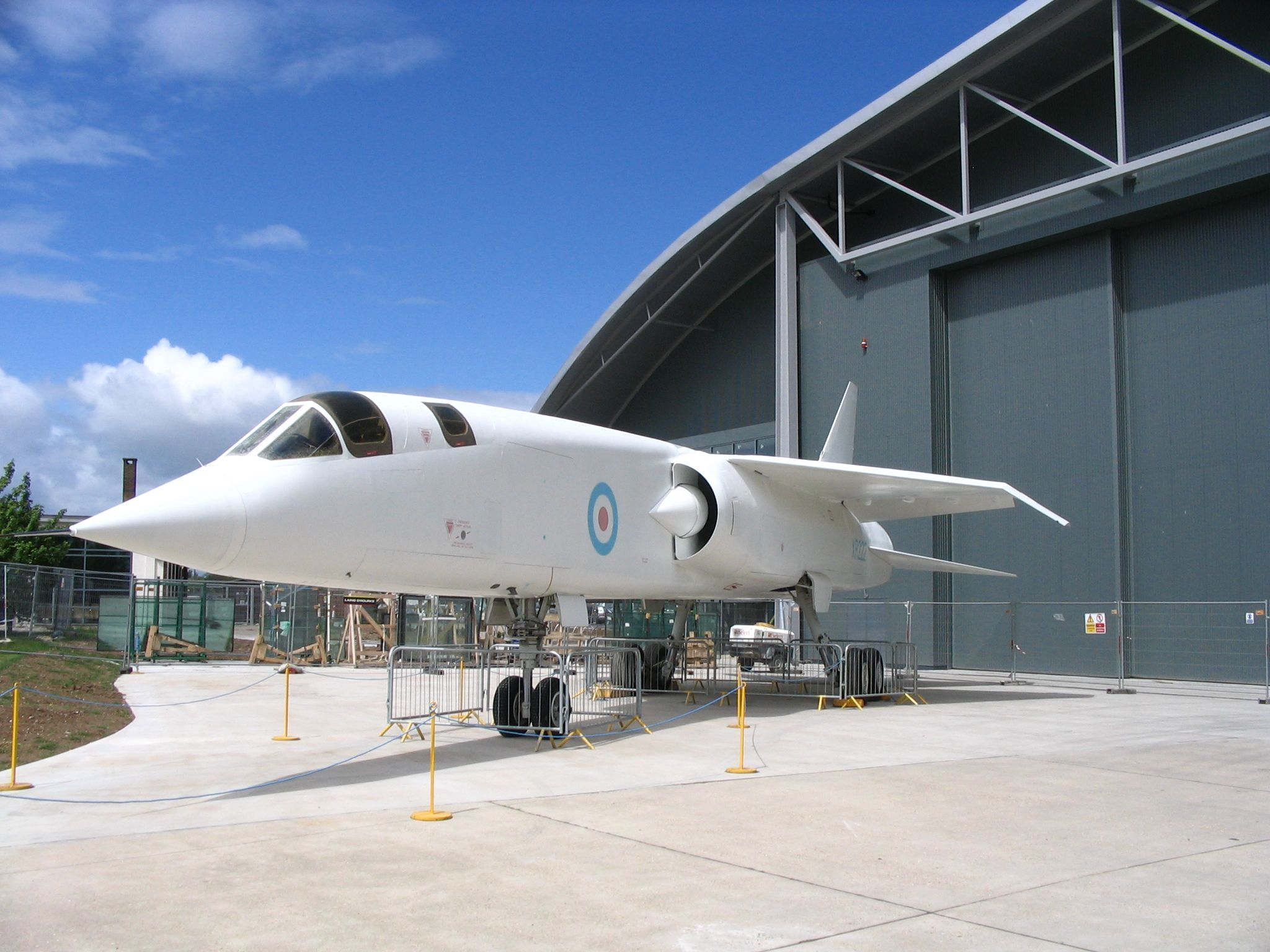 Duxford Imperial War Museum, England BAC TSR-2 This work by Andrew Belding is licensed under a Creative Commons Attribution 3.0 Unported License .